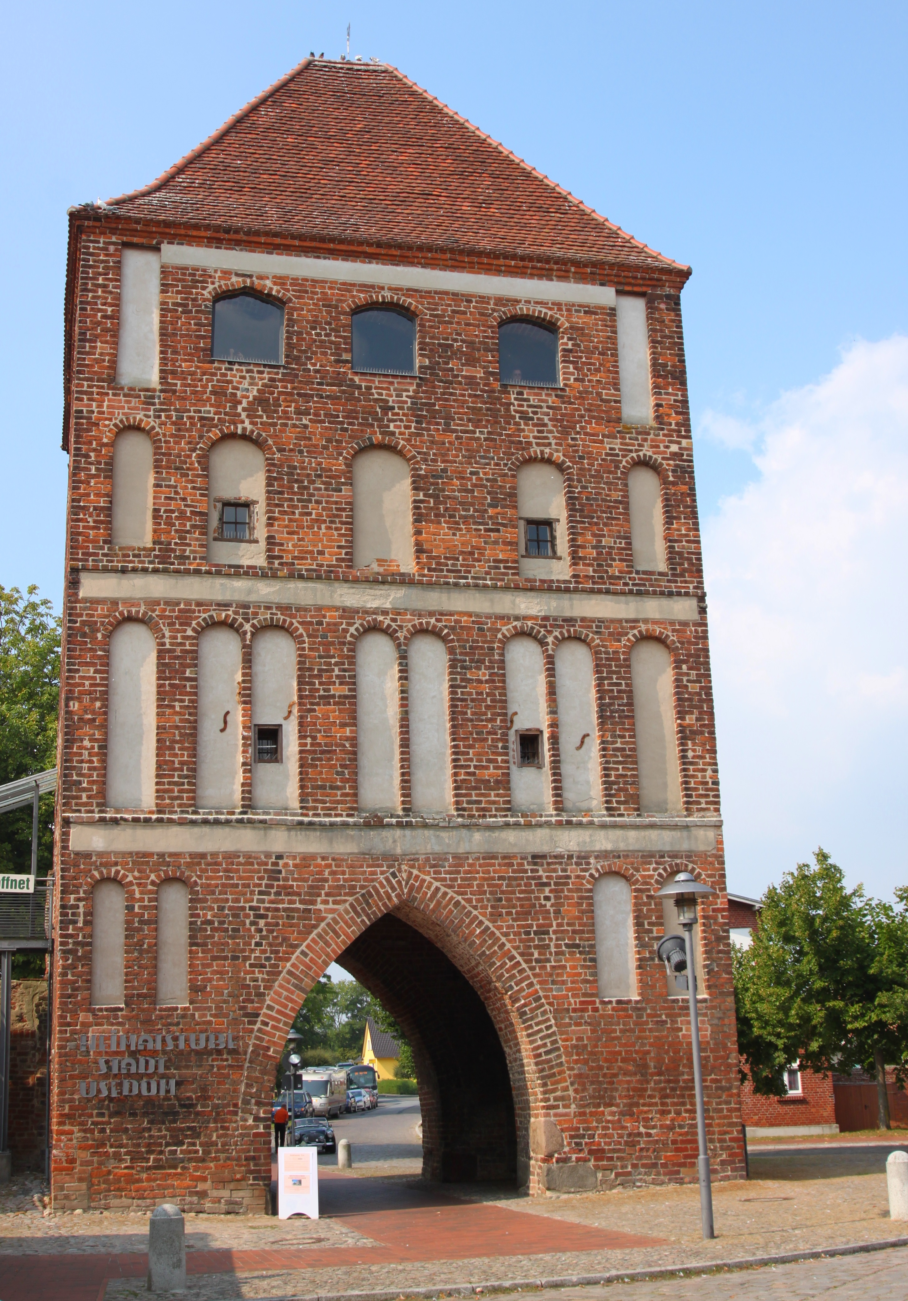 Town-facing side of Anklam Gate of Usedom City